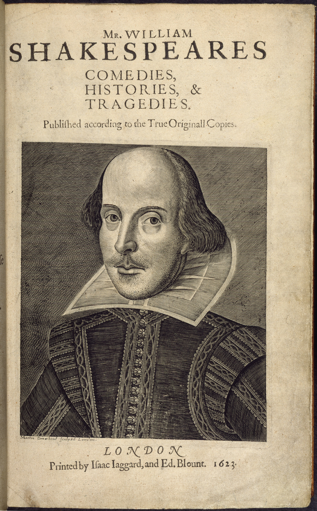 William Shakespeare William Shakespeare (1564 - 1616). English playwright, poet and actor.Portrait.